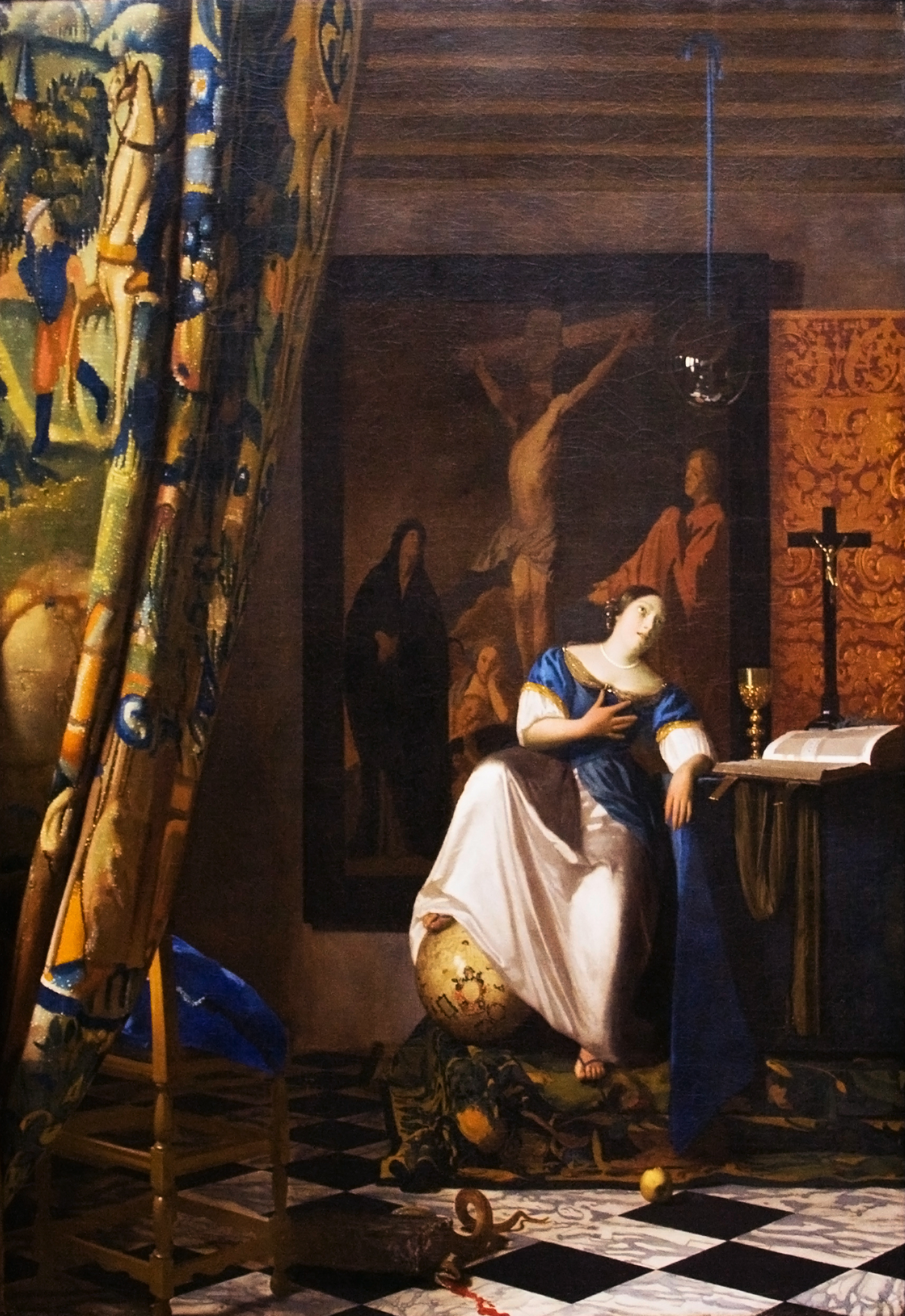 Allegory on Faith